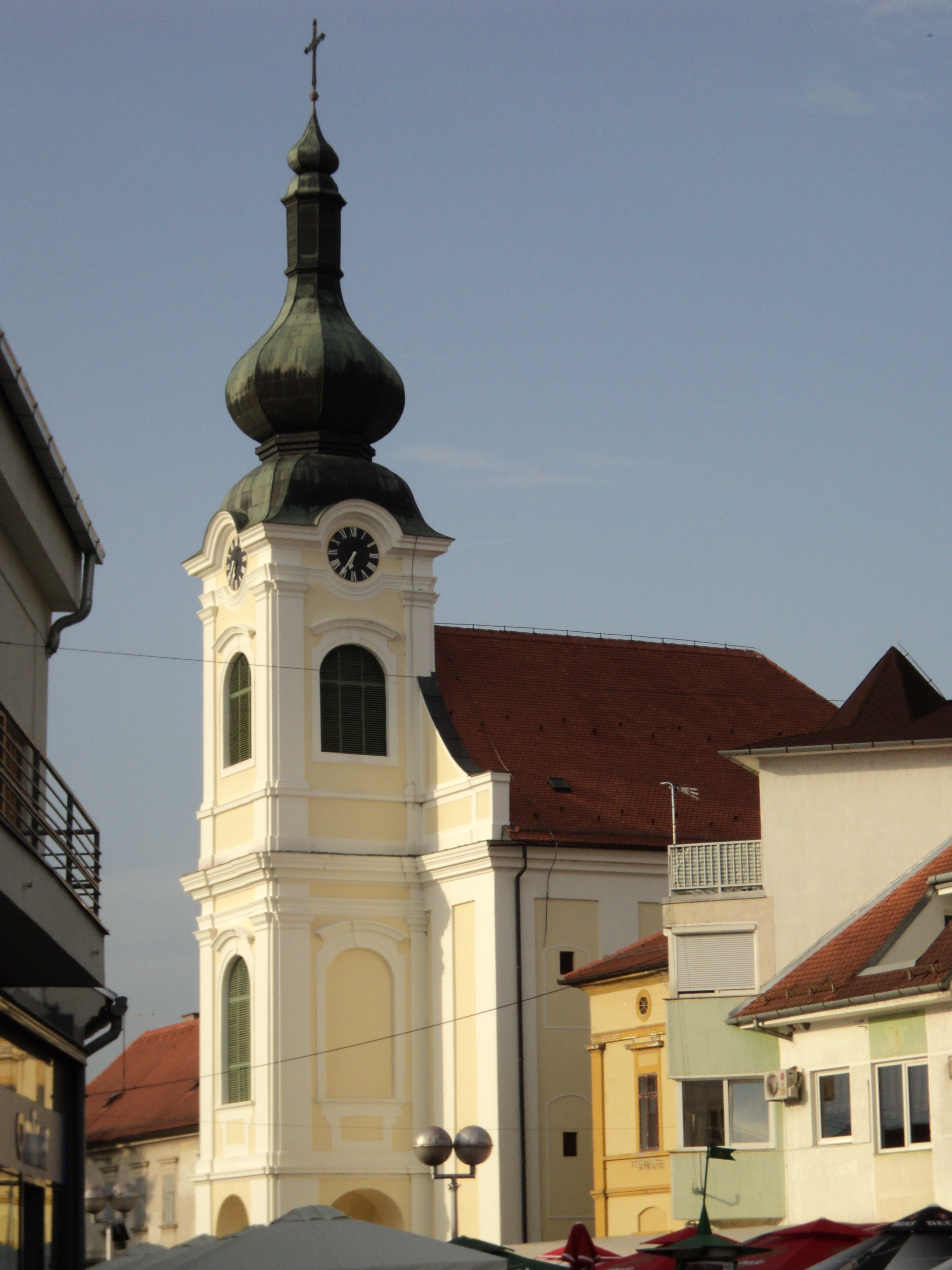 Church of the Immaculate Conception in Valpovo.